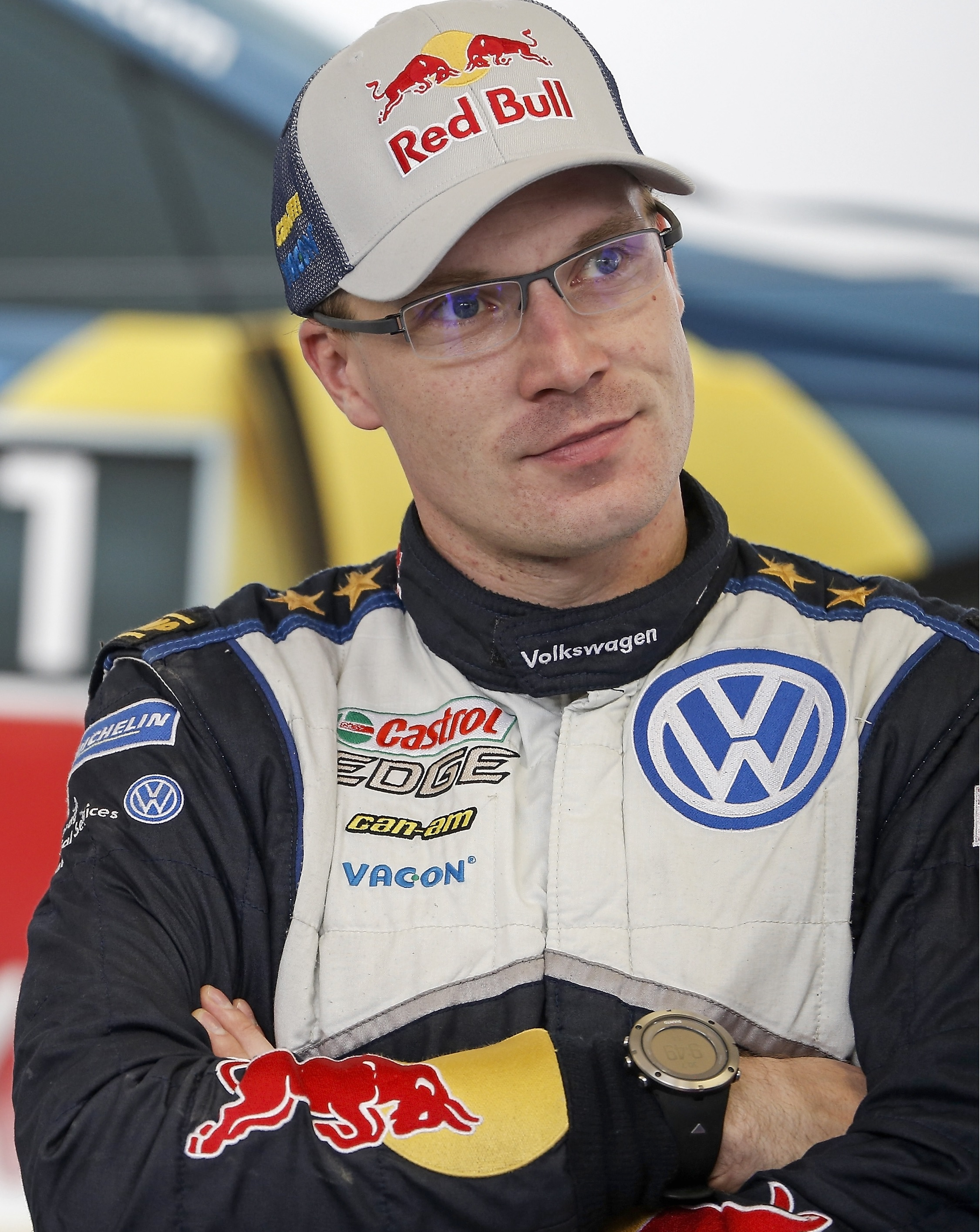 Jari-Matti Latvala at the 2015 Rally Finland.